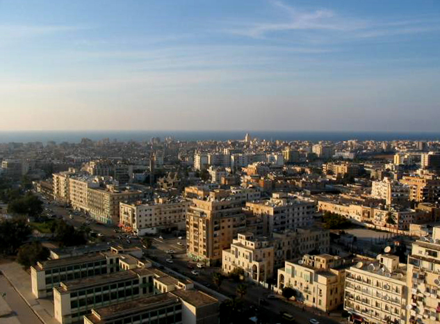 A view of the Old Town of Benghazi, Libya.